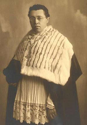 Mgr. Calewaert, before bishop